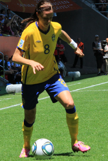 Lotta Schelin playing for Sweden in the 2011 FIFA Women's World Cup